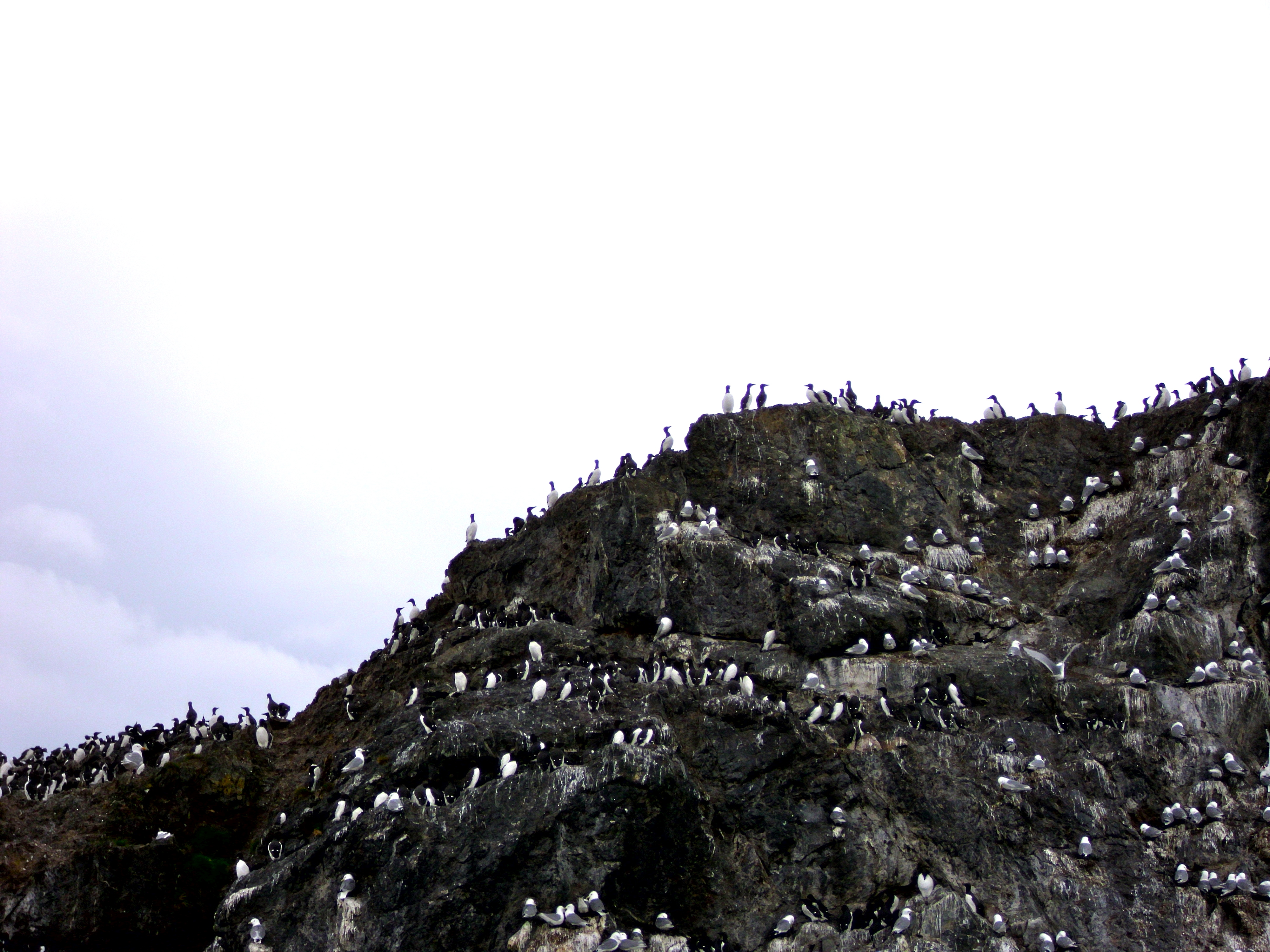 Cormorants, murres and gulls, Gull Island, Kachemak Bay, Alaska